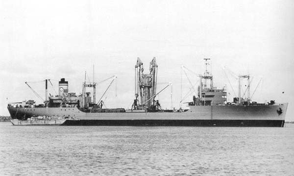 USNS PVT. Leonard C. Brostrom (T-AK-255) at anchor, date and location unknown. PVT. Leonard C. Brostrom was converted to a heavy-lift cargo ship in 1954, and operated in that role into the 1970's. Distinguished by her heavy-lift booms on her midships kingpost, with a lift capacity of 150 tons, she was a near-sister to USNS Marine Fiddler (T-AK 267), but that ship had a single-level bridge superstructure and a single kingpost forward. US Navy photo from the Haze Gray and Underway web site.